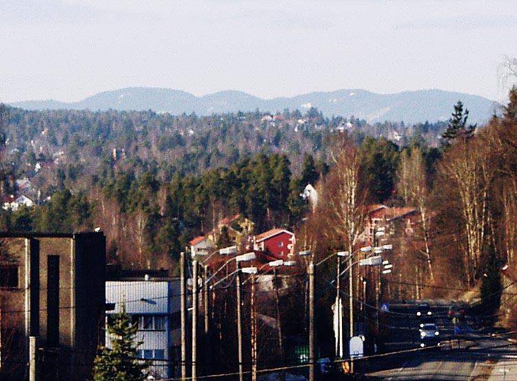 Prinsdal sett fra kommunegrensen mellom Oslo og Oppegård